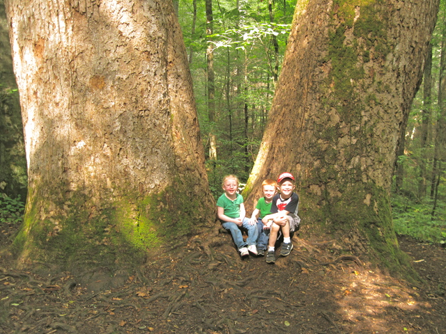 Yellow-poplars and children, Joyce Kilmer Memorial Forest, Graham County, North Carolina, USA